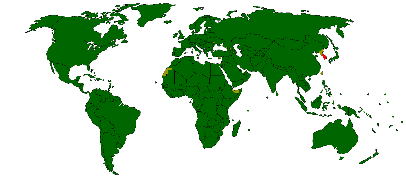 Key: South Korea (The Republic of Korea) Nations the R.O.K. recognizes and has diplomatic relations with Nations the R.O.K. recognizes, but does not have diplomatic relations with Disputed areas